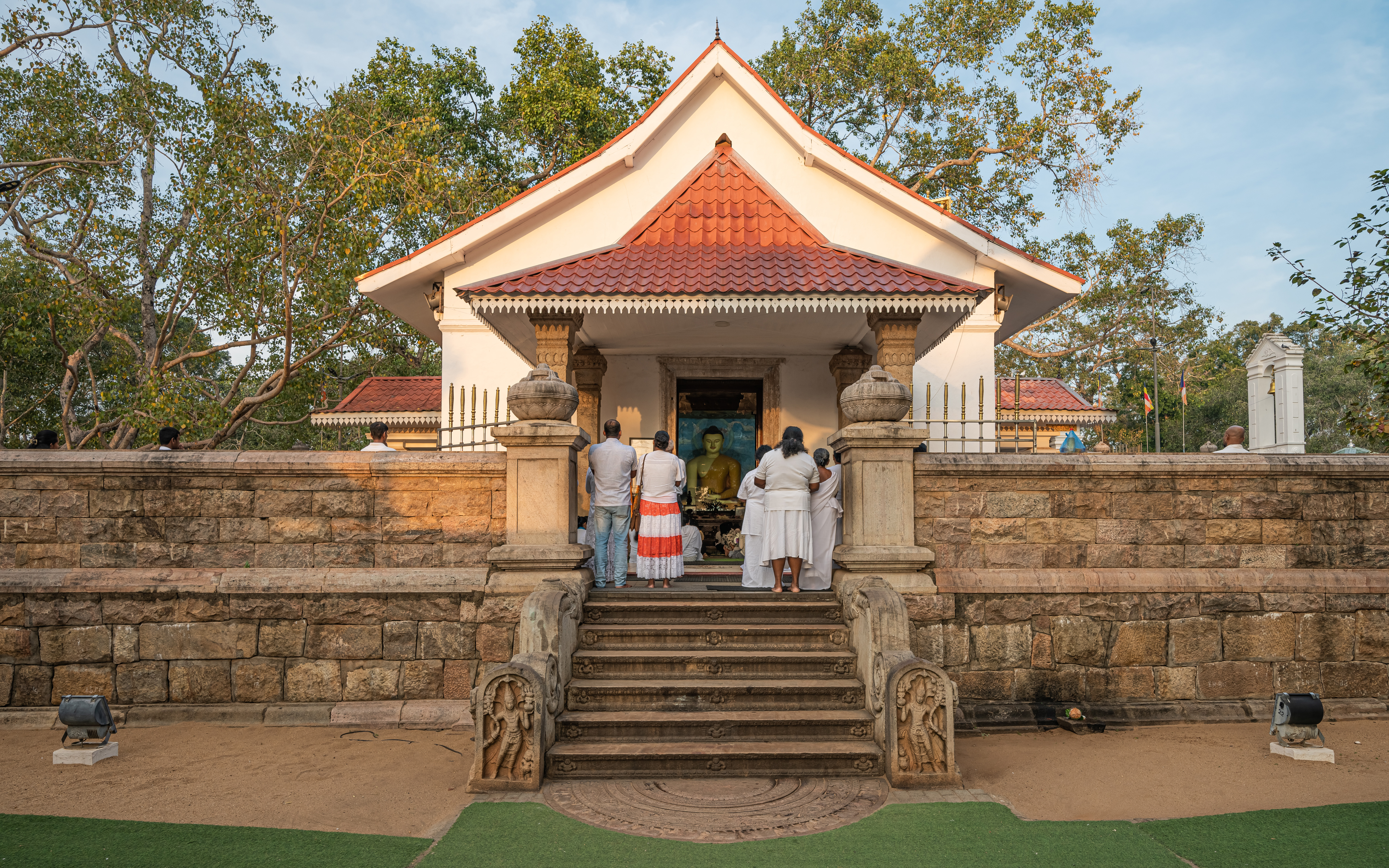 Jaya Sri Maha Bodhi tree and shrine complex in Anuradhapura, Sri Lanka